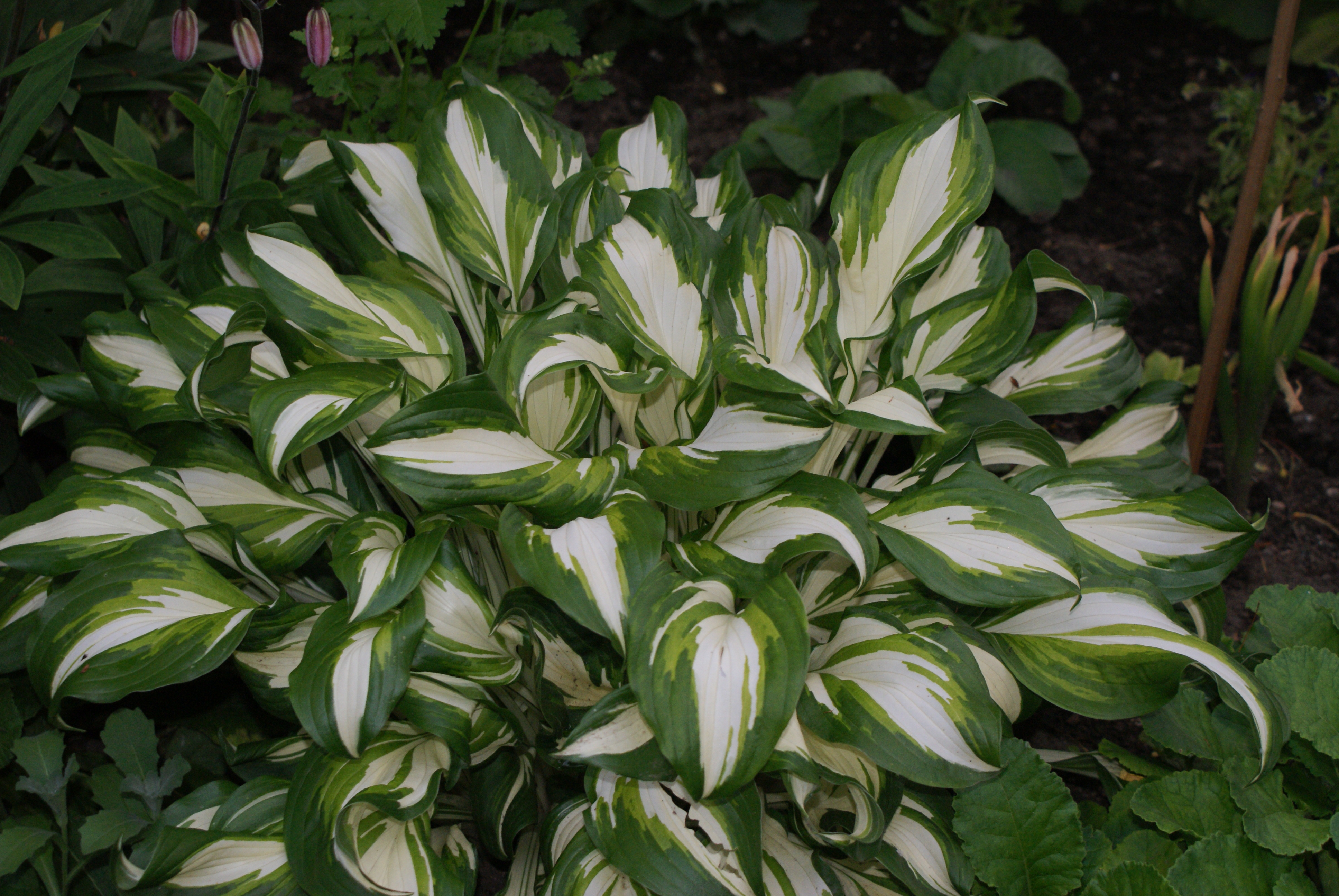 Hosta (Belarus)